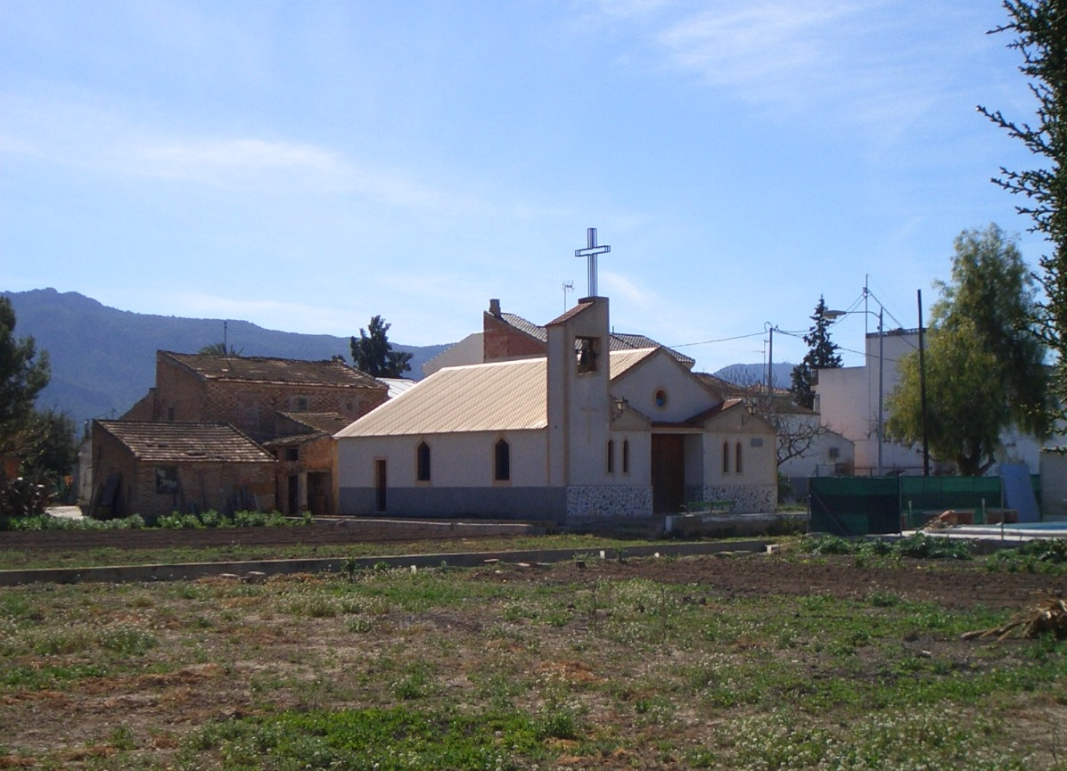 Saint John the Baptist Chapel in Los Dolores (Murcia)